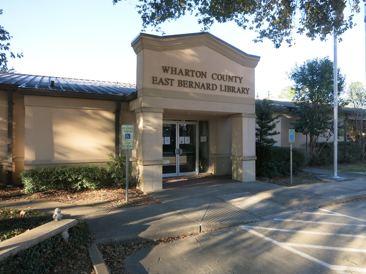 Photo shows the Wharton County: East Bernard Library at 746 Clubside Dr, East Bernard, TX 77435. View is toward the north.